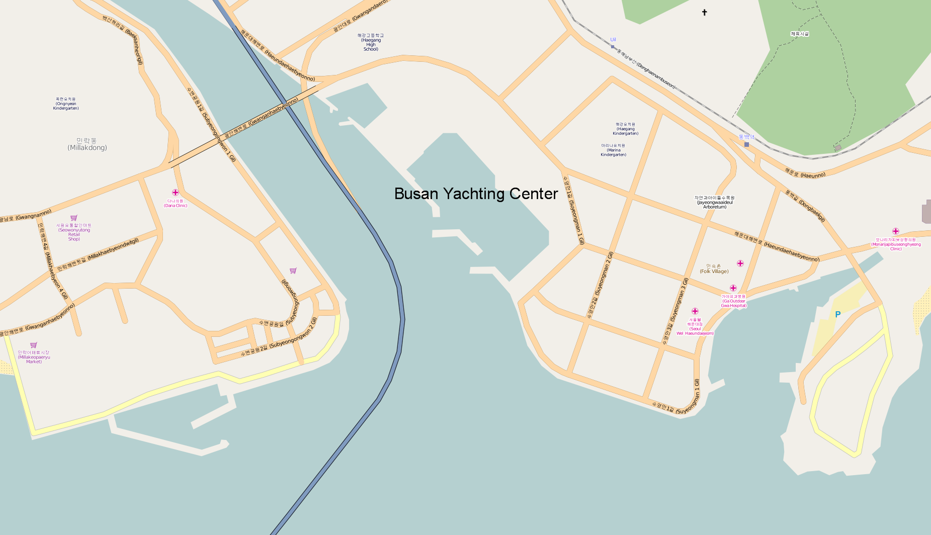 Open street map view of the Busan Olympic Center. This map may be incomplete, and may contain errors. Don't rely solely on it for navigation.